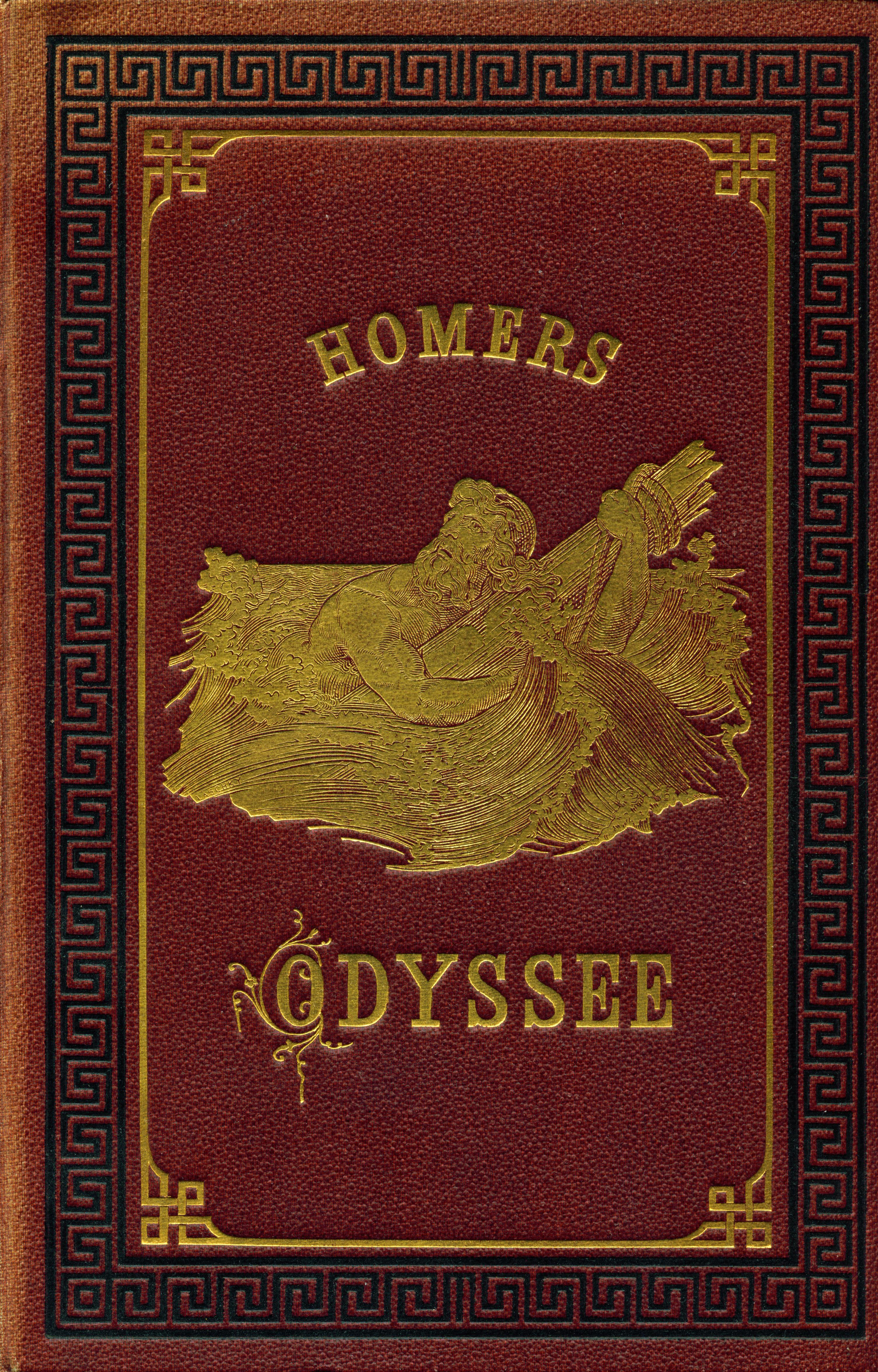 Front page of a Danish copy of Homer's Odyssey. 1878 edition.